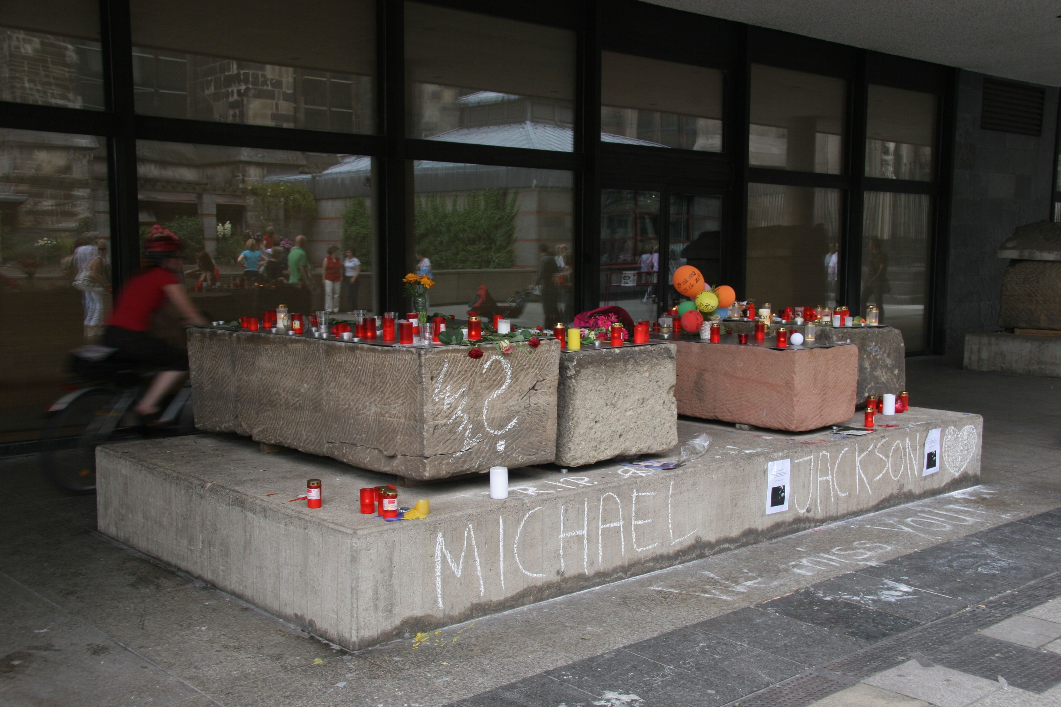 a fan-built shrine for Michael Jackson as a reaction to his death, next to the Cologne Cathedral